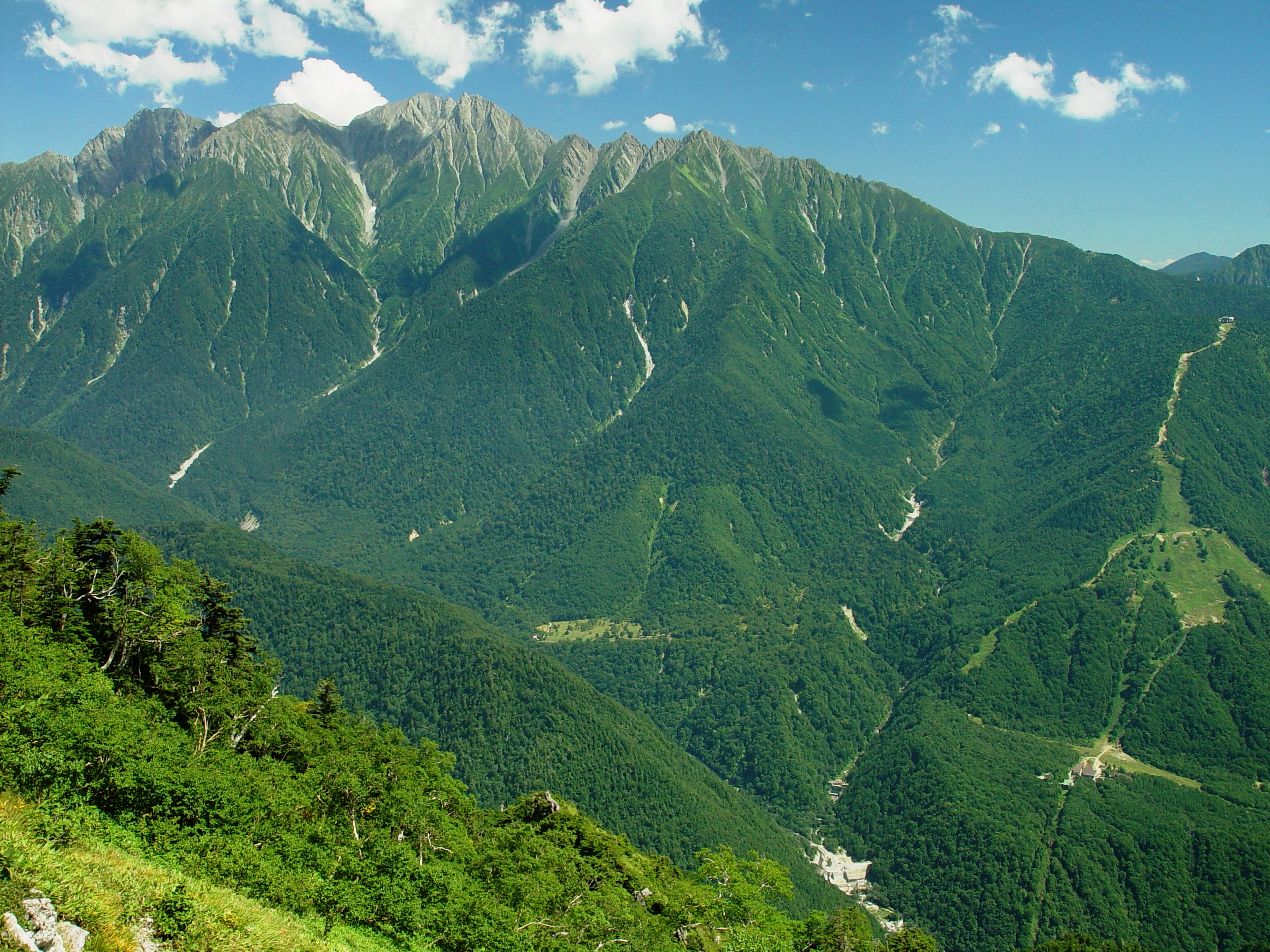 Mount Hotaka and Shinhotaka Ropeway seen from Mount Kasa in Hida Mountains, Japan.